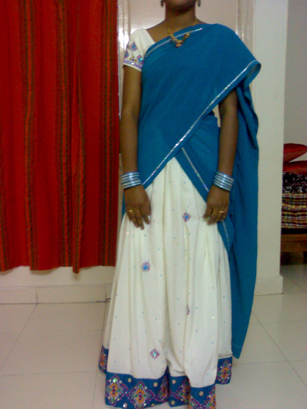 This is a picture of a girl in the traditional Langa Oni, which is worn by unmarried girls.